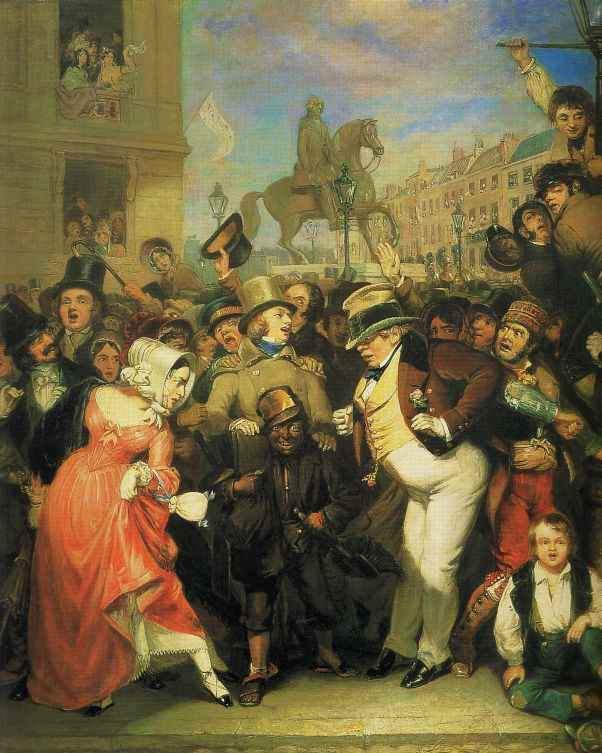 The Crowd